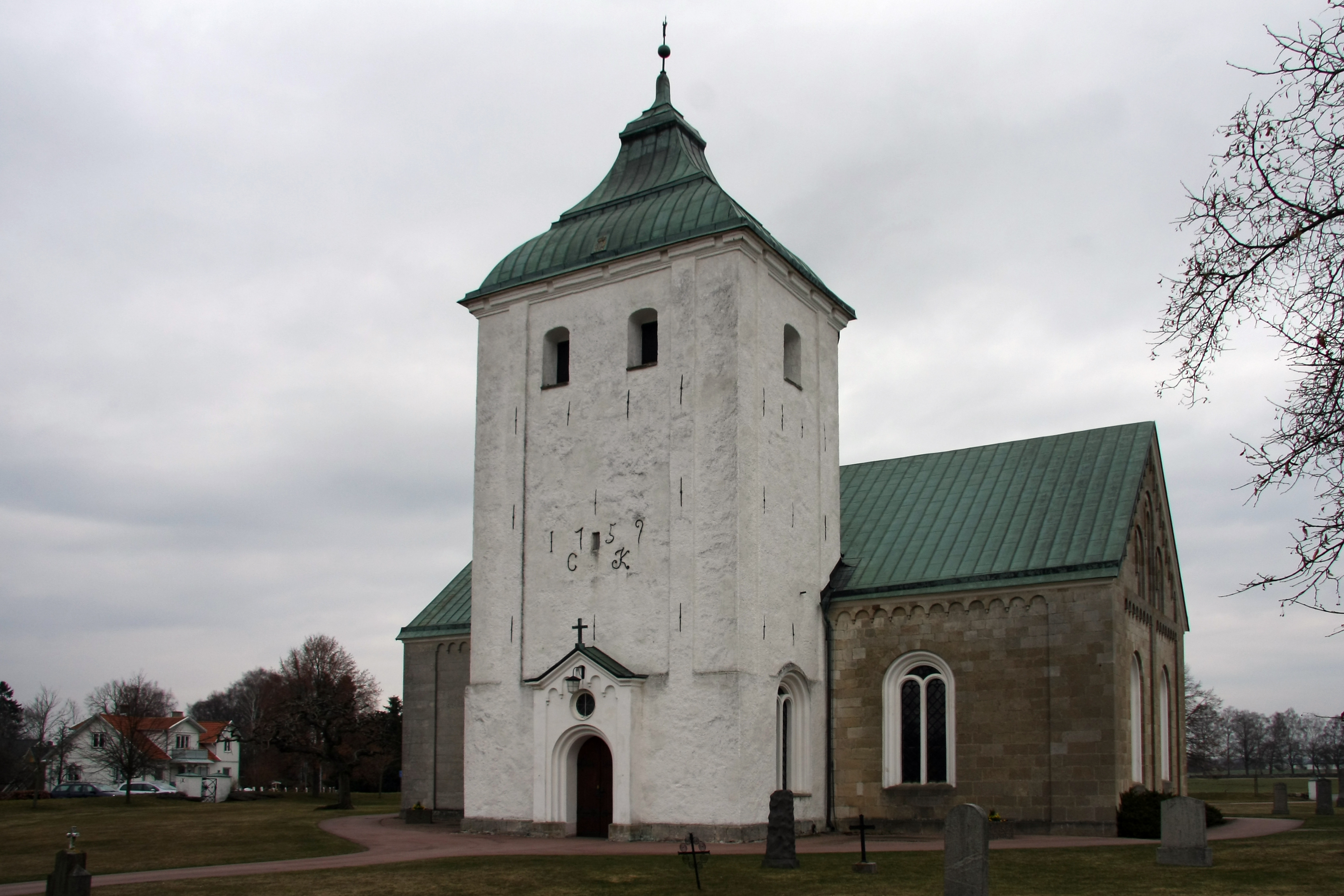 Vinslöv church in Vinslöv village, Hässleholm Municipality, Sweden